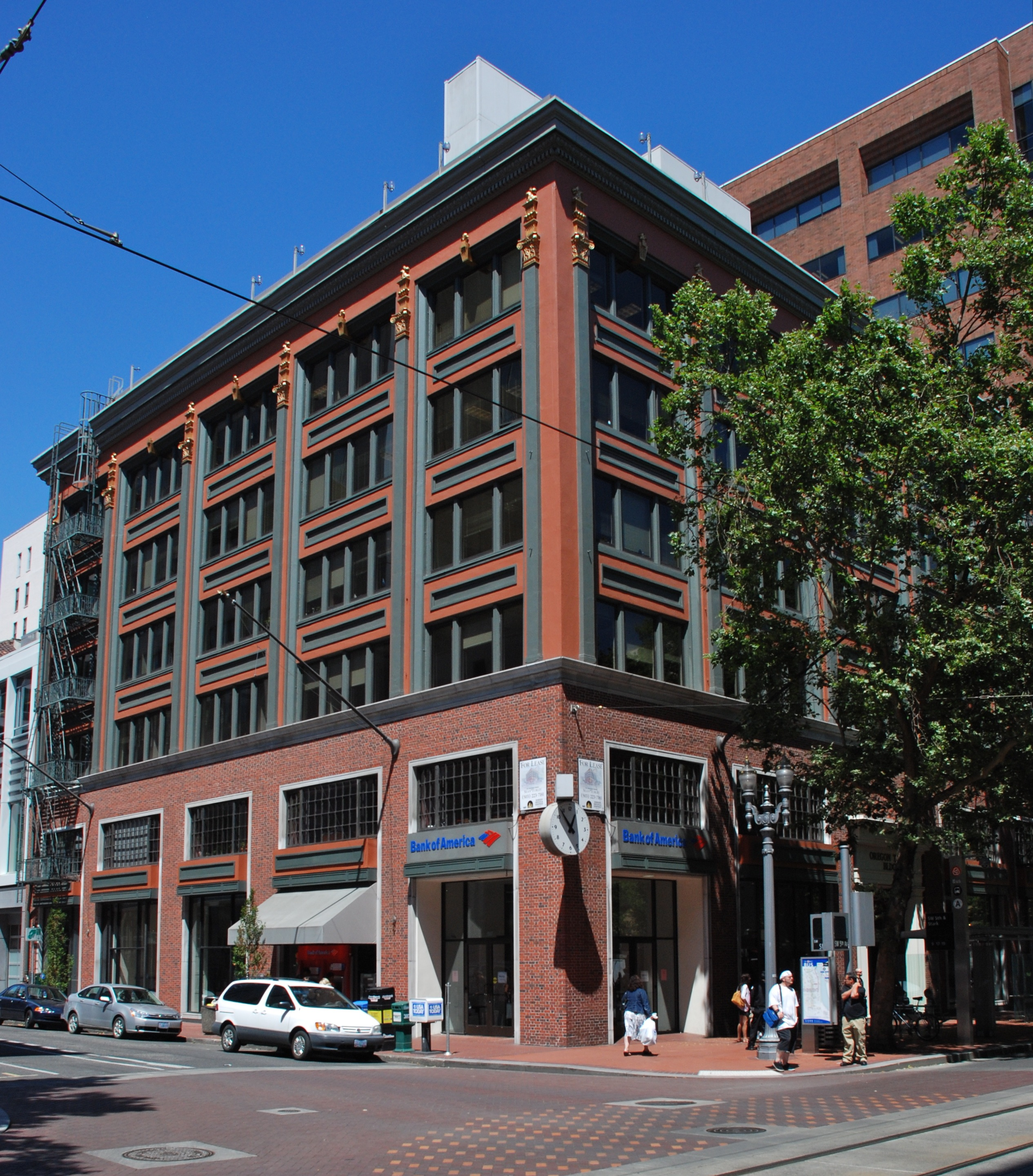 The historic Lumbermen's Building (built 1909) in Portland, Oregon, United States, is listed on the US National Register of Historic Places (NRHP). Originally occupied by Lumbermen's National Bank, later major tenants included Benjamin Franklin Savings & Loan, Oregon Trail Savings & Loan, and Bank of America. The first two floors were remodeled in 1948. The building is located at the corner of Southwest 5th Avenue and Stark Street, in downtown Portland, and is also known as the Oregon Trail Building. NRHP reference number 96000992